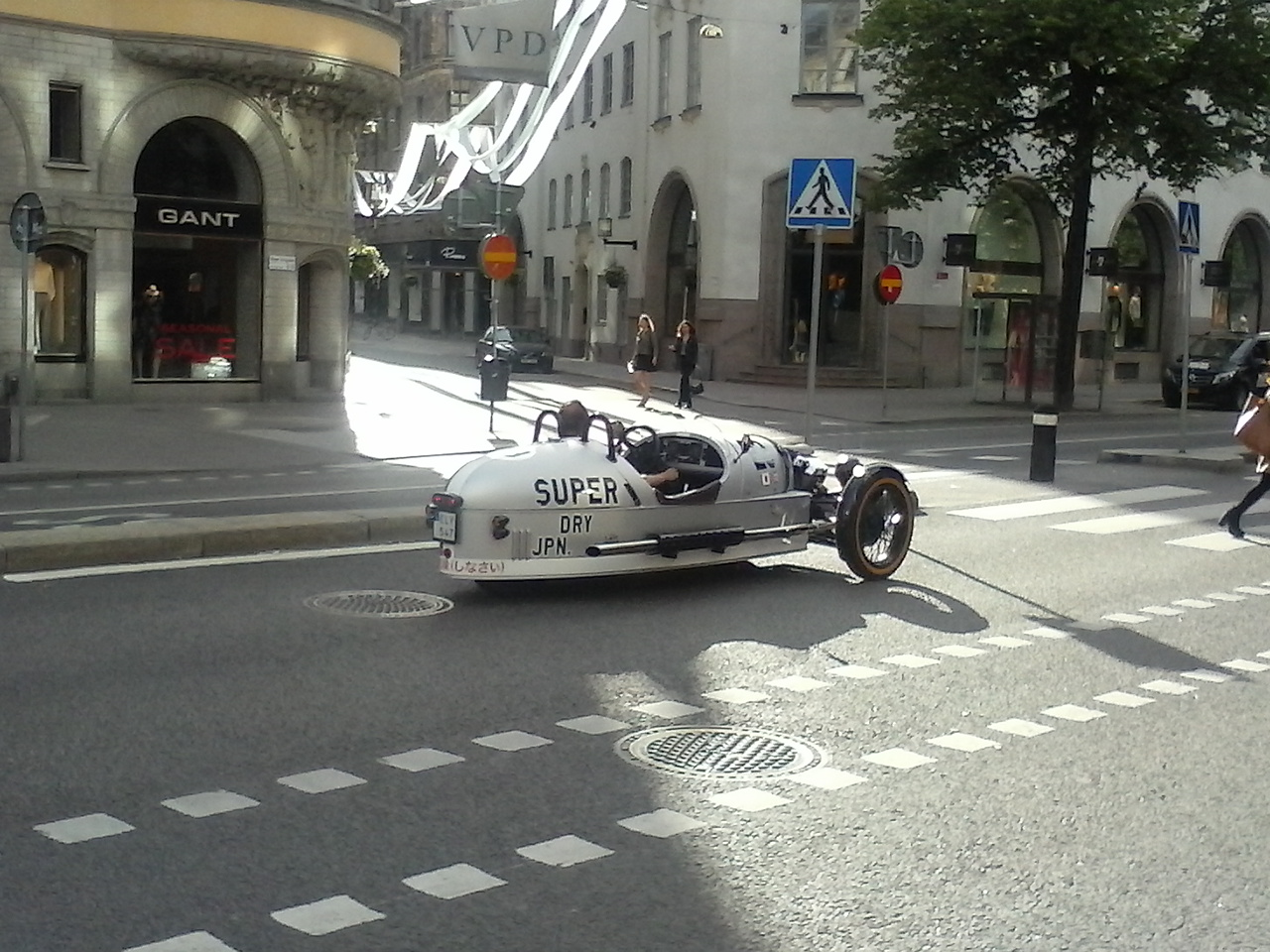 A Morgan 3-Wheeler on Birger Jarlsgatan in Stockholm, Sweden Vehicle registration enquiry resultsJurisdictionSwedenRegistrationELY547Chassis codeSA9M3WV2EEP202269 Year of manufacture2014Weight550 kg